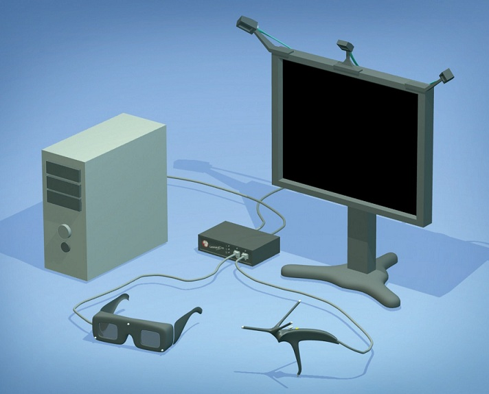 The Leonar3Do Virtual reality drawing system hardware elements illustration